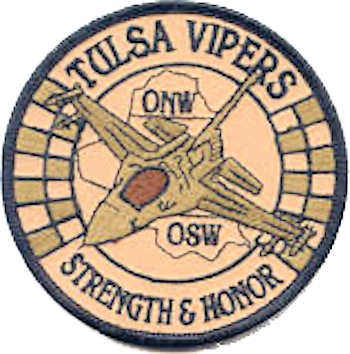 125th Fighter Squadron Operation NORTHERN WATCH/SOUTHERN WATCH emblem